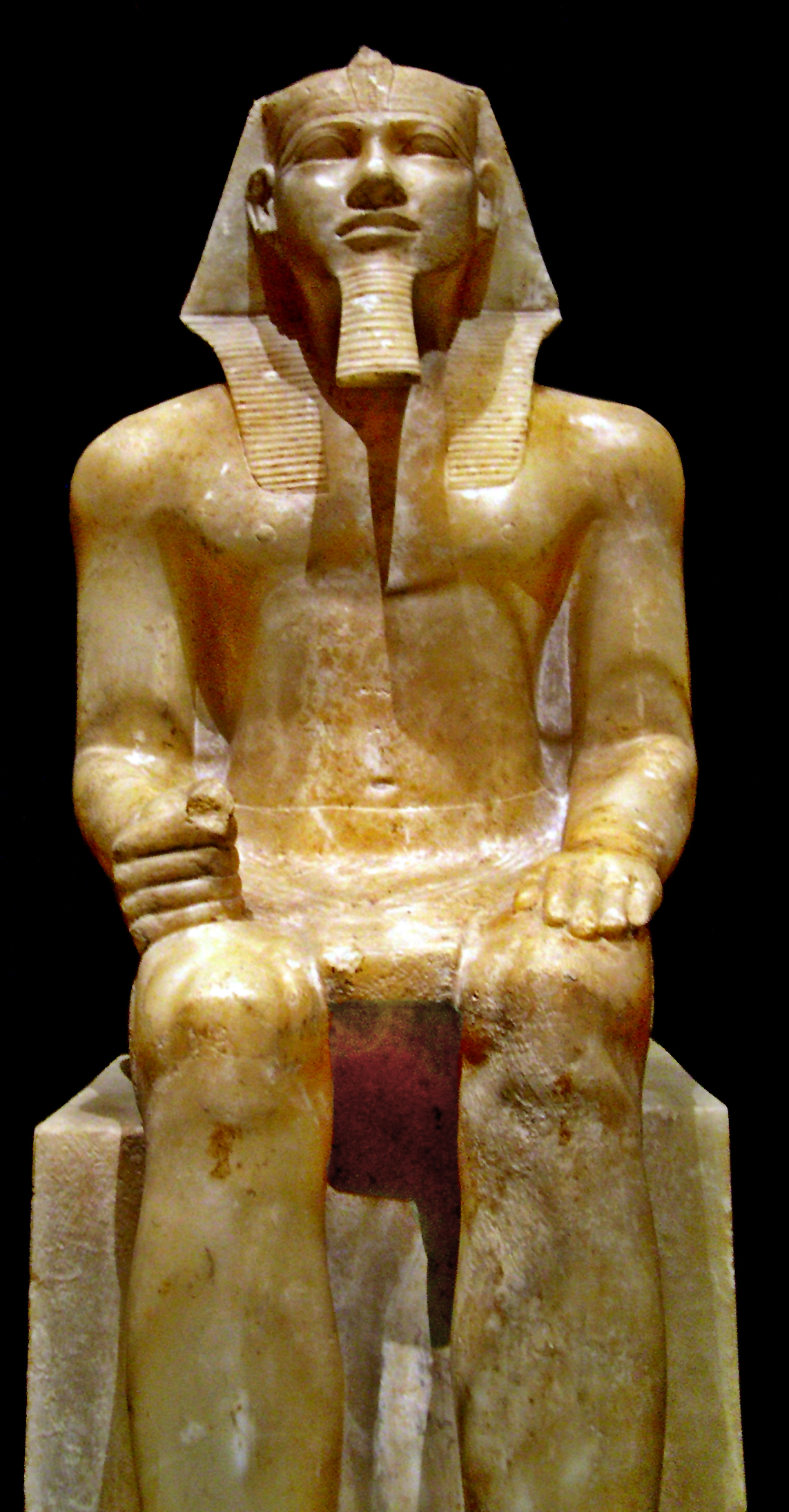 Sitting portrait of the egyptian pharaoh named Khafra or Khafre (Greek Chephren); it was found in Mit Rahina and resides in the Egyptian Museum, in Cairo, Egypt. Fourth dynasty (between 2558 BC and 2532 BC)